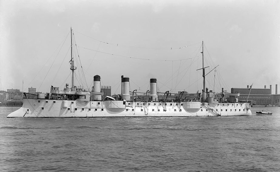 Photograph of French cruiser Chasseloup Laubat, on the Hudson River, New York.